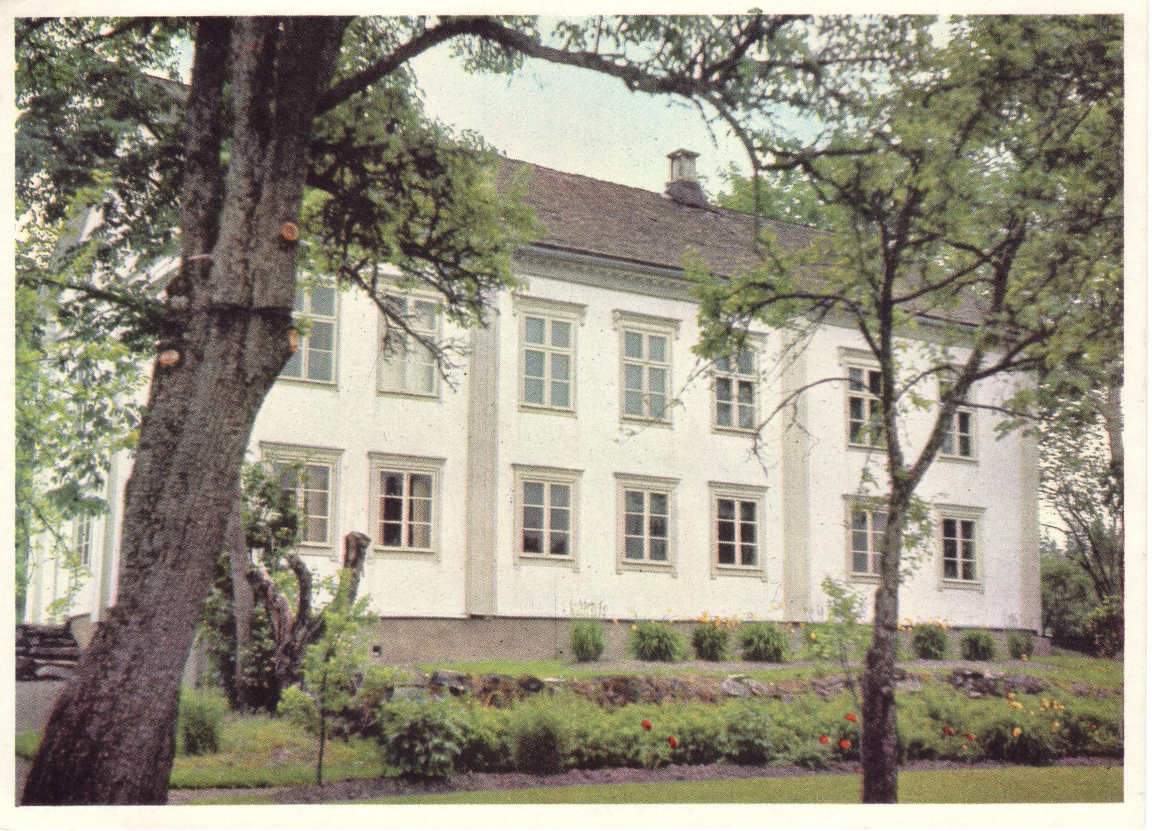 Tranjerdstorp estate, Karlstad